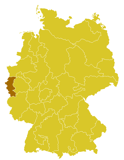 dioecese of Aachen, Roman catholic